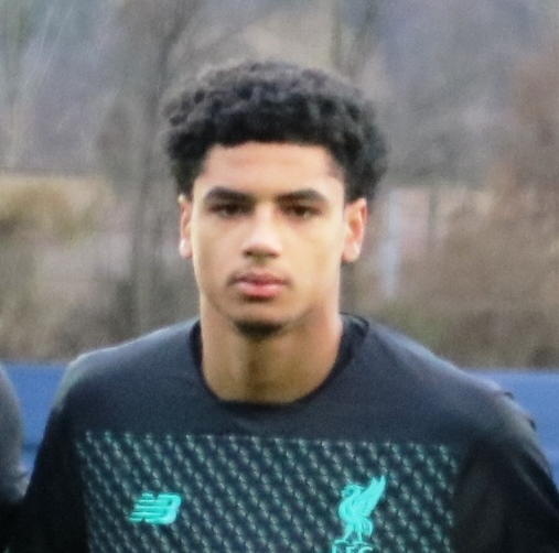 Group stage 6th round